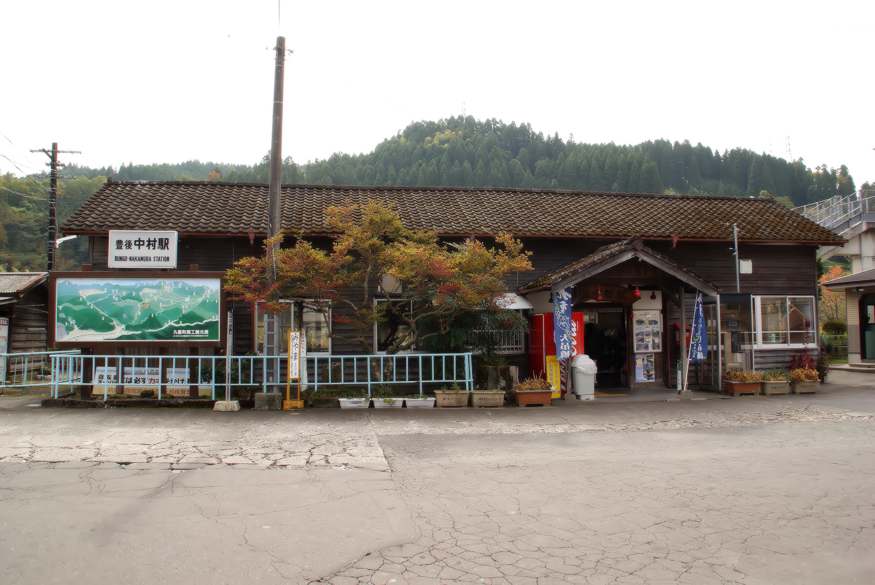 Kyushu Railway, Bungo-Nakamura Station.(Kokonoe Town, Oita Prefecture, Japan)